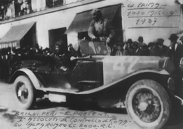 Entry #42 at the first Mille Miglia on 27 March 1927 was Sign. Gastone Brilli Peri in an Alfa Romeo RL SS 22/90.[1] The text written on the photograph says LA PRIMA 1000 MIGLIA 1927" and "BRILLI.PERI – B. PRESENTI // IO ASSOLUTI AL CONTROLlO .. ROMA SU ALFA ROMEO 6C 3000 RL". So perhaps this is taken in Rome.